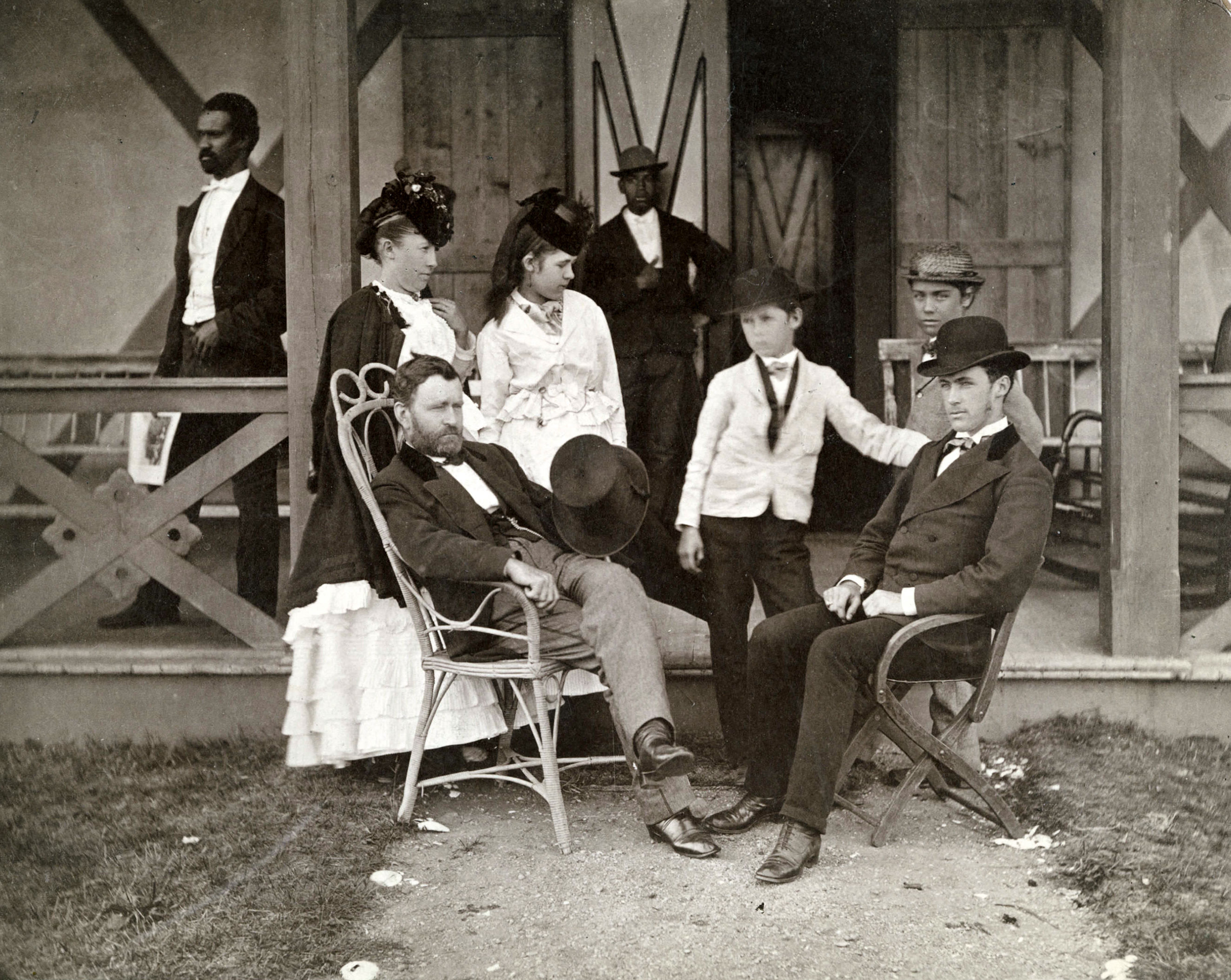 Ulysses Grant and Family at Long Branch, NJ by Pach Brothers, NY, 1870. The Imperial Cabinet Card pictures Grant and wife, Julia Dent, and their four children; Jesse, Ulysses Jr., Nellie, and Frederick in front of their cottage. Also present are two black men, whose identities are unknown.